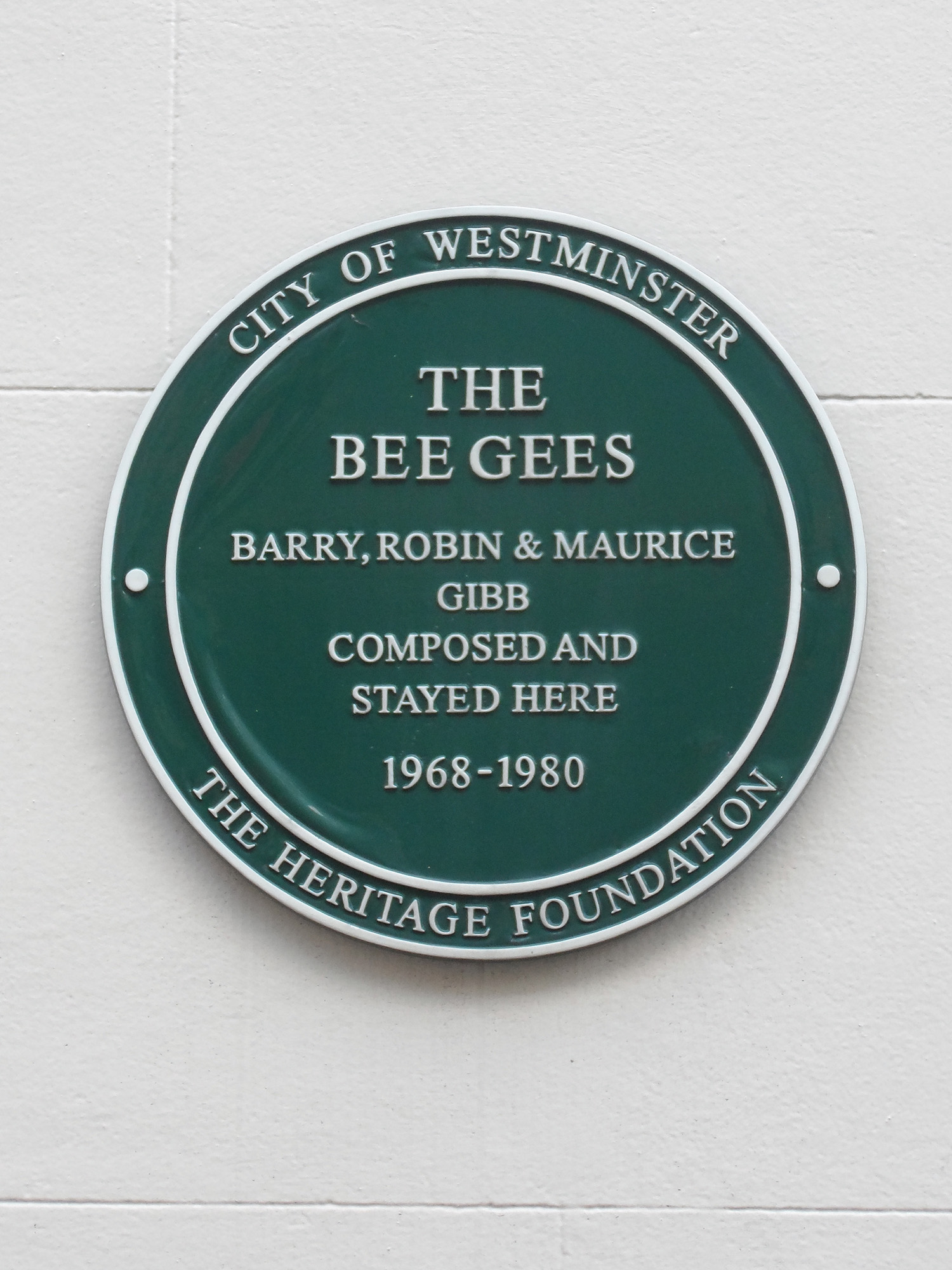 Erected by Heritage Foundation and City of Westminster on 10 May 2008